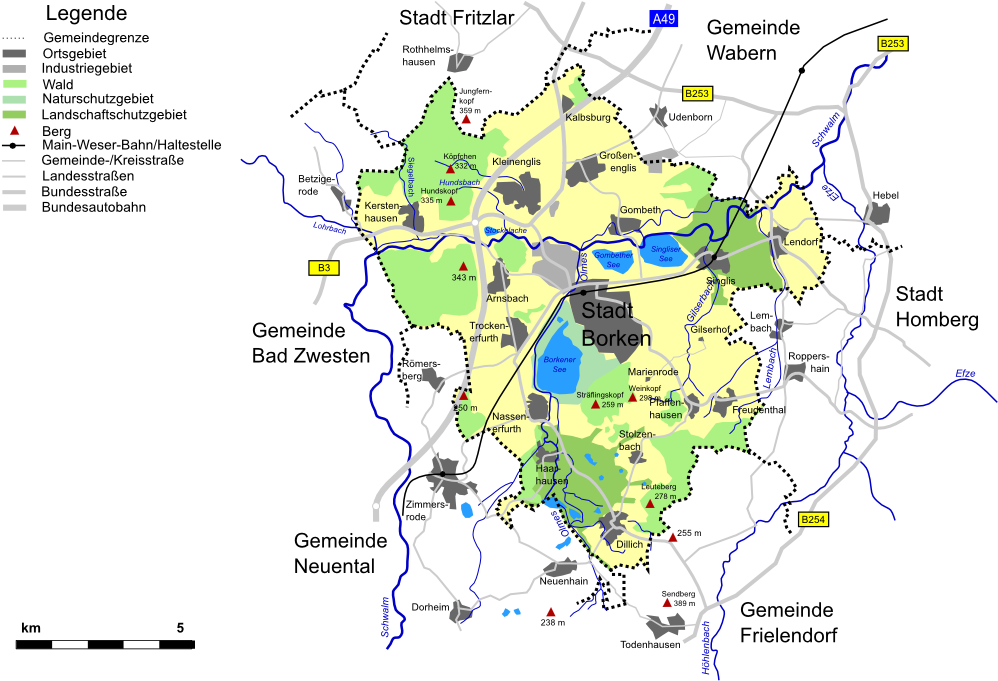 Map of Borken, Hesse